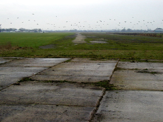 Pocklington Airfield, south west of Pocklington, East Riding of Yorkshire, England.This is the view from the northern end of Pocklington Airfield. This was the site of a World War II bomber base. It is now an industrial estate, gliding school and farmland. This is the view looking southwards from MR: SE79264909.